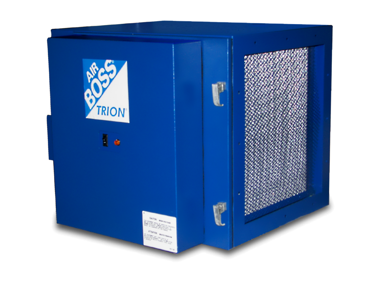 An electrostatic air cleaner from TRION series Air Boss, model T1001.